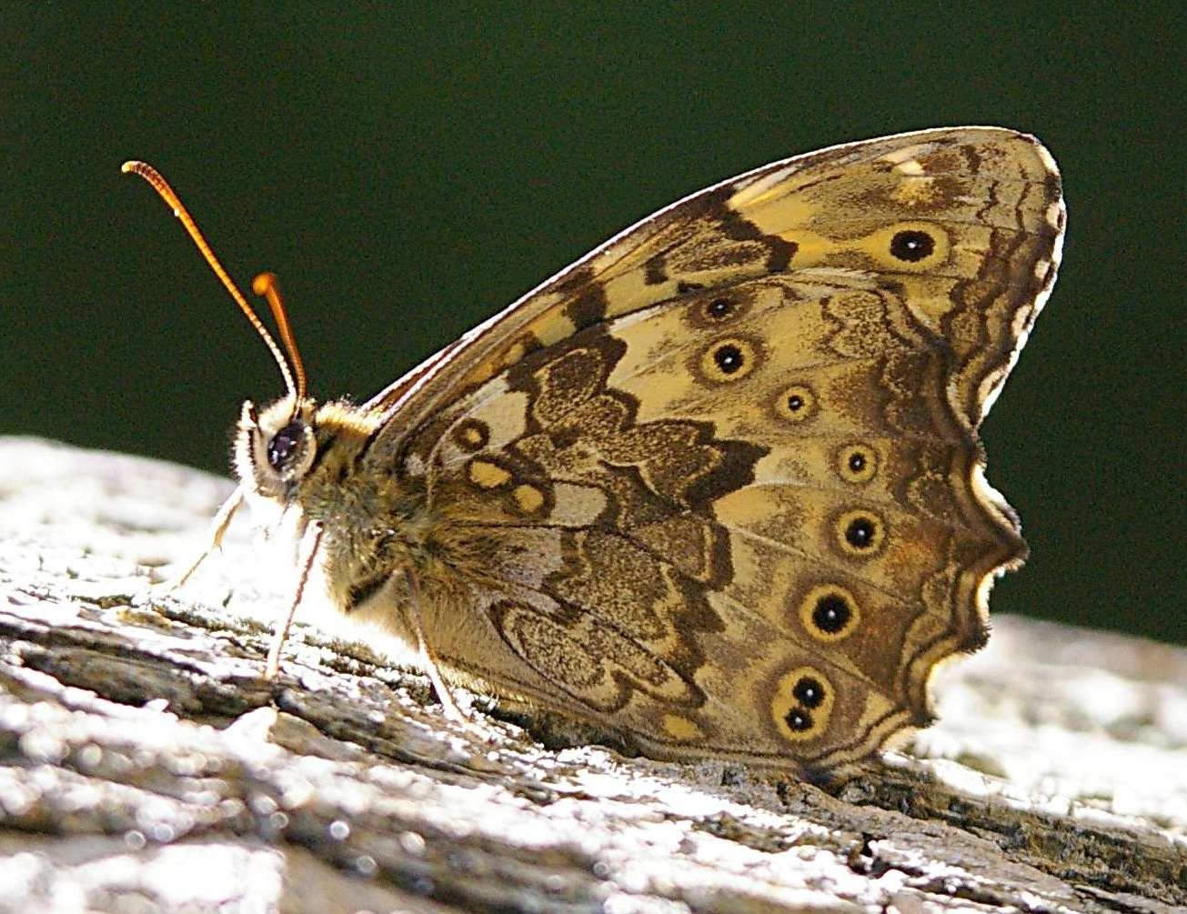 Neope goschkevitschii, Japan, 2007